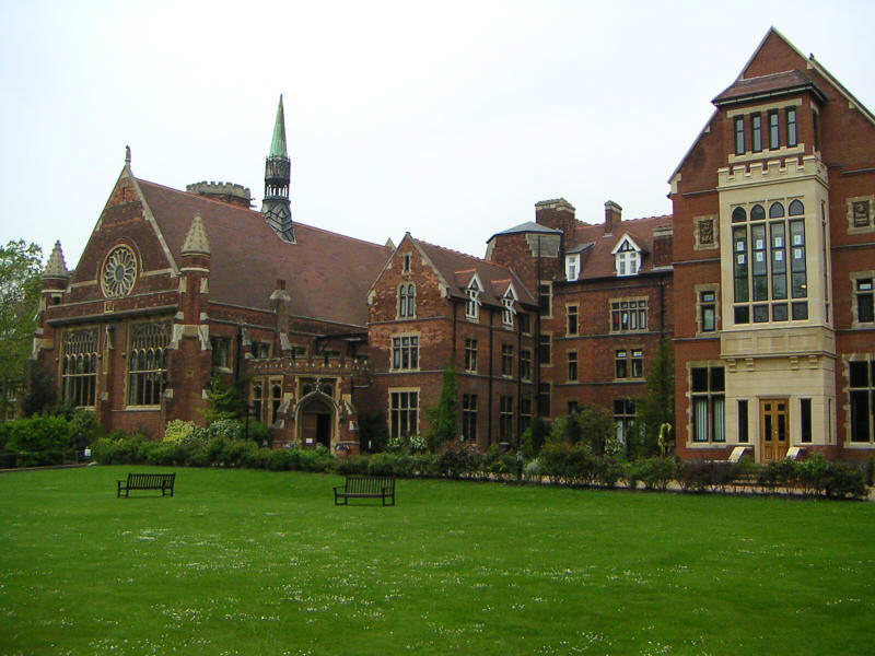 The Cavendish Building is the oldest part of Homerton College, dating from the mid-19th century Taken in May, 2004 by Mark E Moon and placed by him in the public domain. (description at en.wiki)